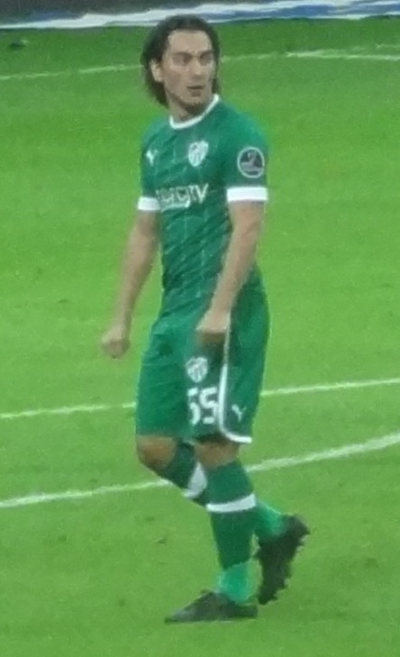 Murat vs GS